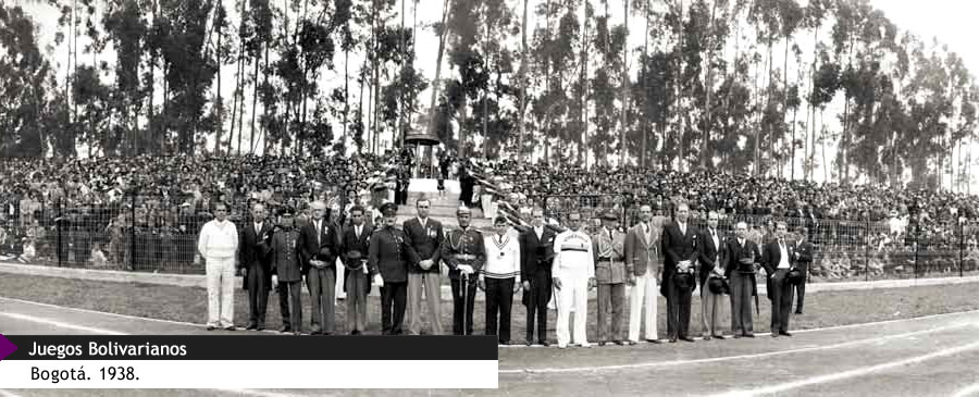 Foto from the 1938 Bolivarian Games in Bogotá, Colombia